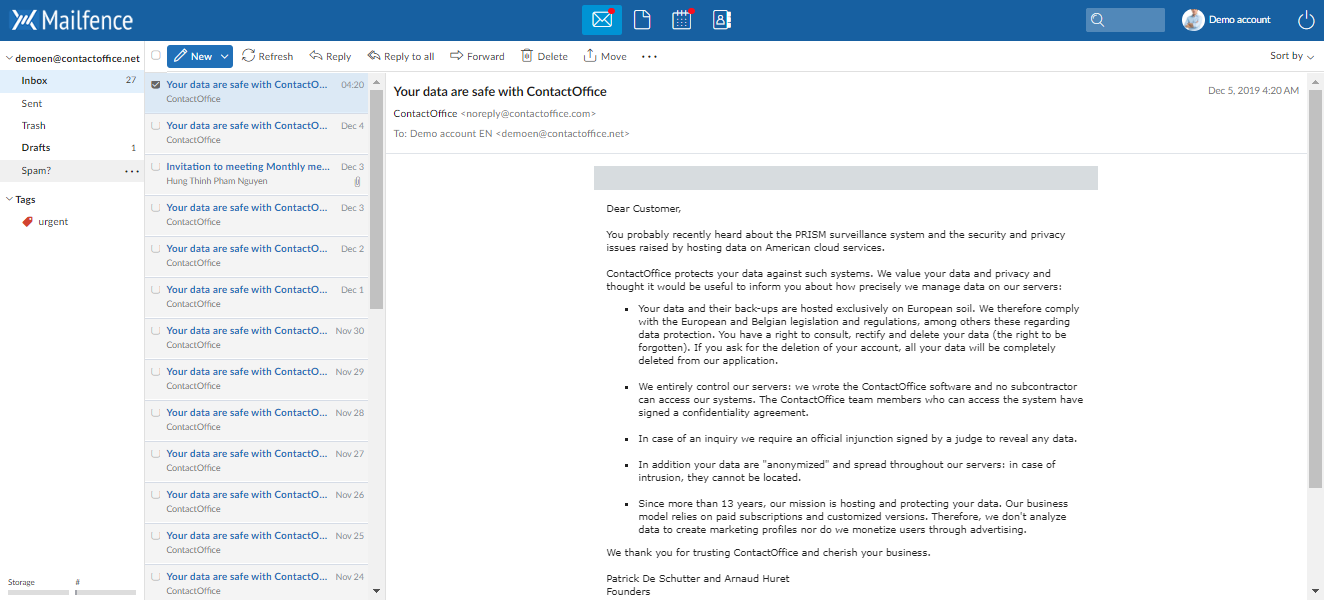 Showing the interface of user's mailbox